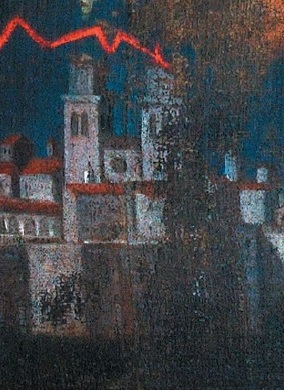 Vista di Altamura - Porta Bari - Dipinto di Sant'Irene (prima metà del XVIII secolo)- Sala Consigliare del Comune di Altamura[1]